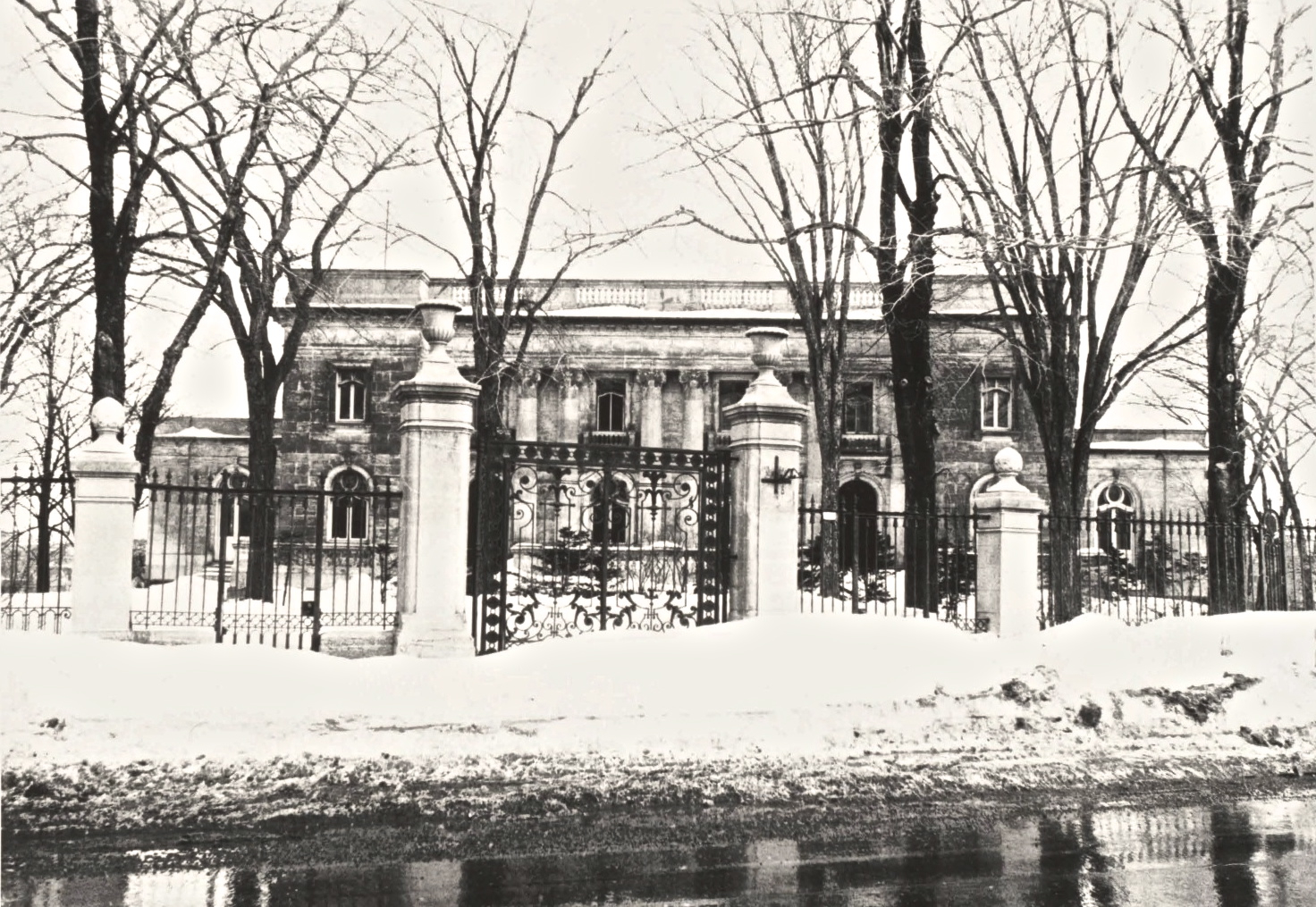 View from Sherbrooke Street East, Château Dufresne, 4040 Sherbrooke Street East, Montreal, Quebec, Canada.